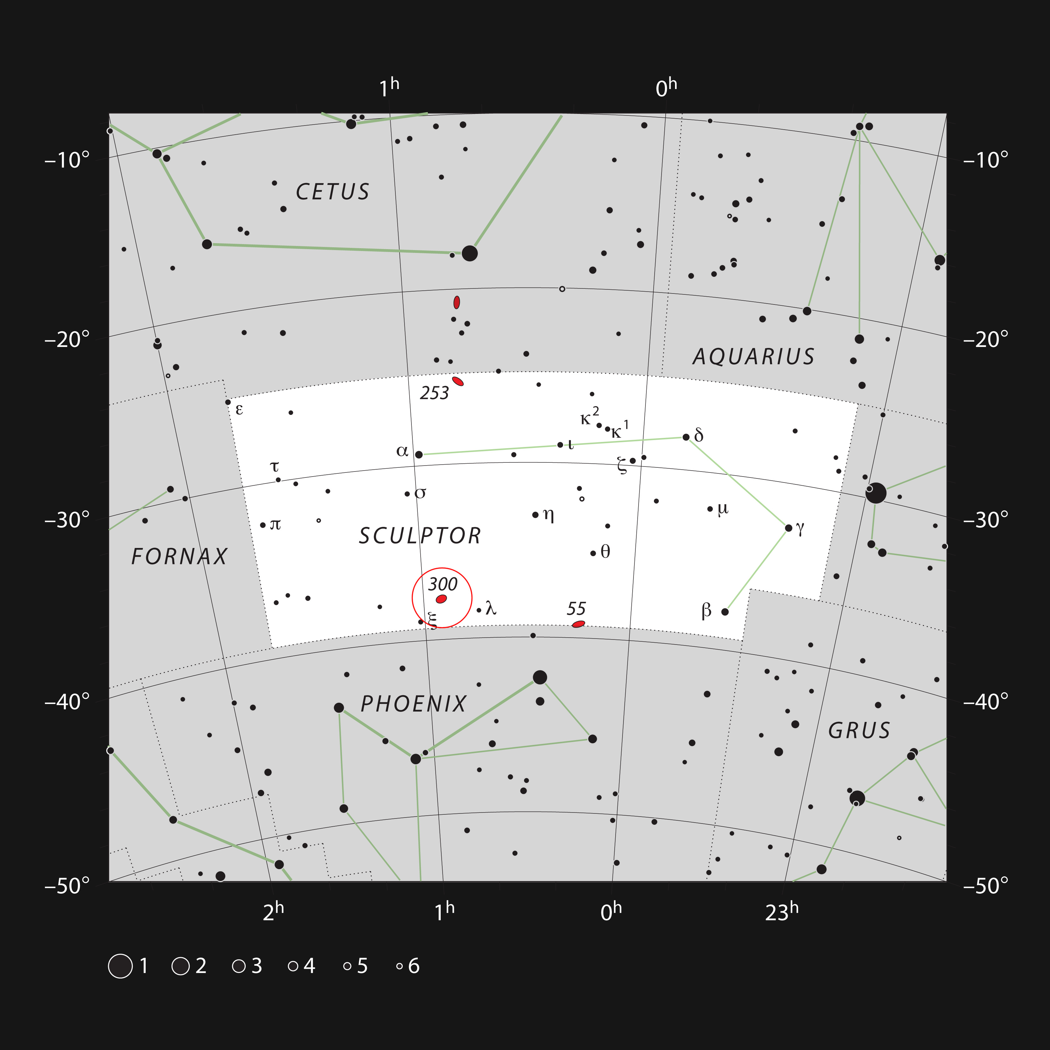 This chart shows the location of the NGC 300 galaxy within the constellation of Sculptor. This map shows most of the stars visible to the unaided eye under good conditions and the galaxy itself is marked as a red oval in a circle at the left (labelled 300 for NGC 300). This galaxy is fairly bright and is bright enough to be seen easily in binoculars.